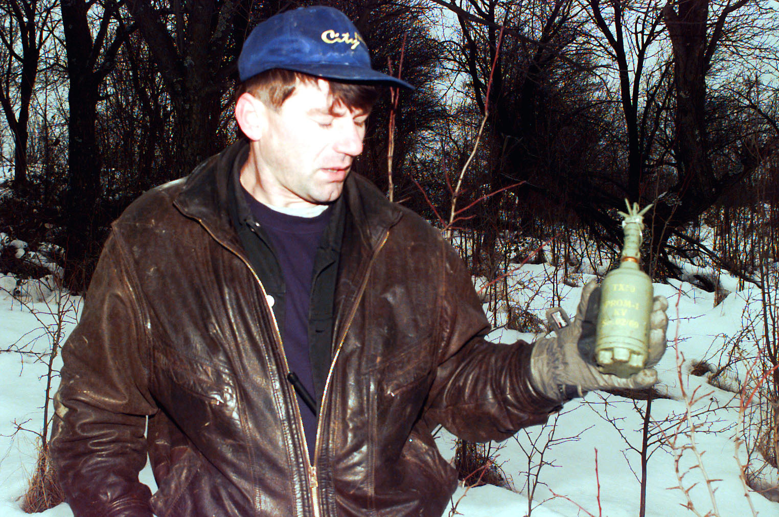 A Bosnian Muslim engineer holds the armed PROM-1 Bounding ANTI-PERSONNEL MINE in his left hand that he found while Bosnia Muslims were rebuilding their village in Gajeve, Bosnia-Herzegovina.